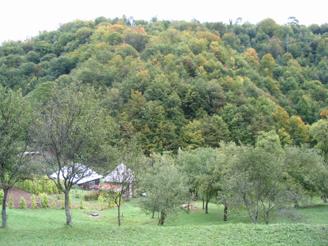 Groape village, Maramureș County, Romania